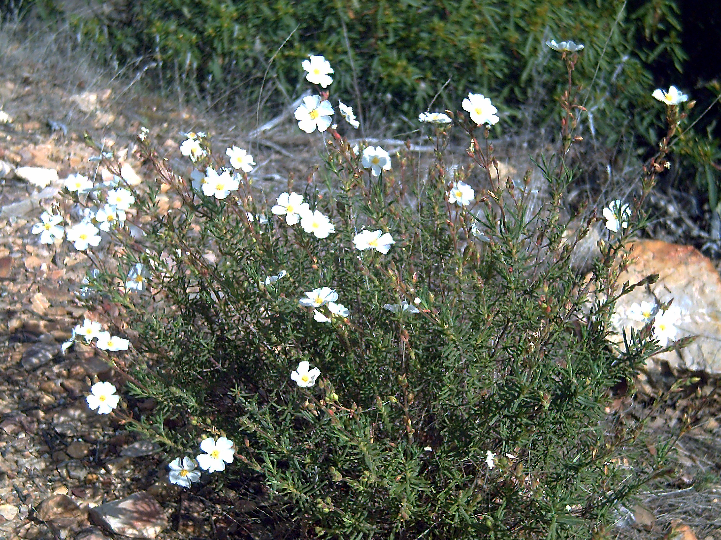 Helianthemum violaceum habitus Sierra Madrona, Spain